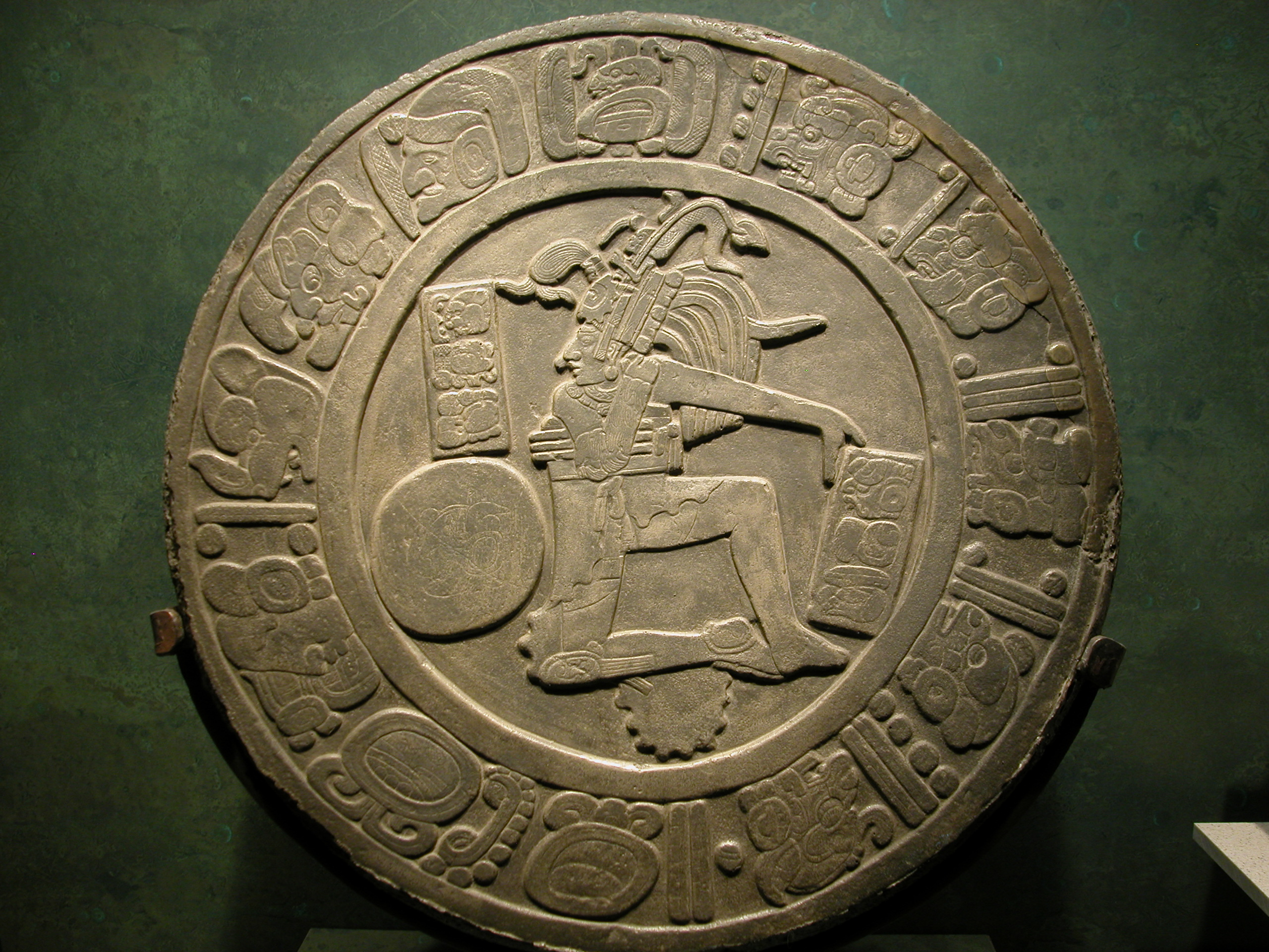 ball player disc from chinkultic, chiapas